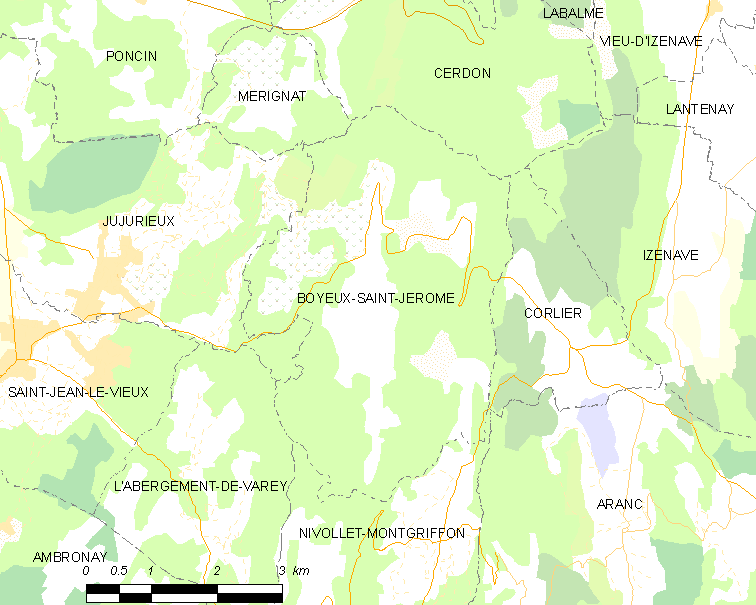 Map of French commune: Boyeux-Saint-Jérôme Map commune FR insee code 01056.png